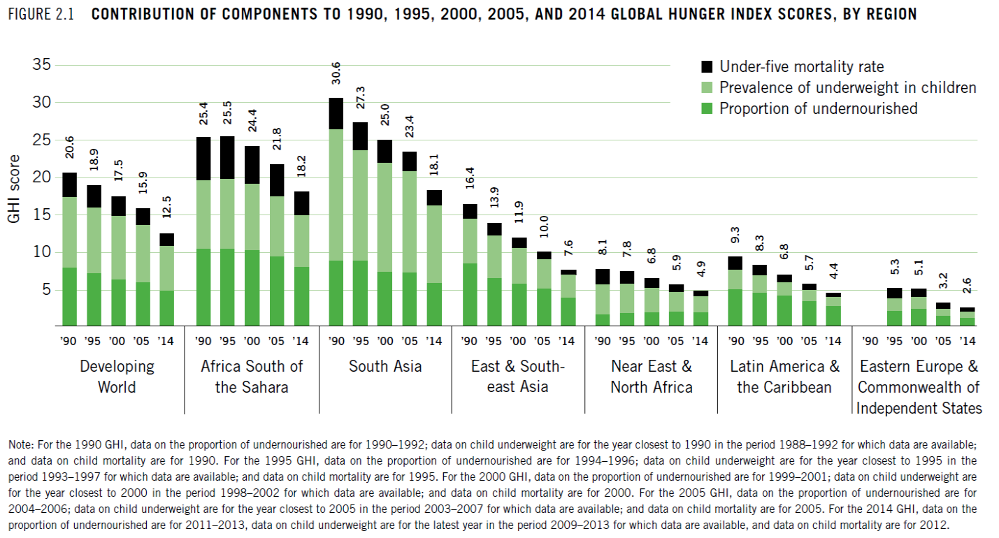 Regional comparison of 2014 GHI data